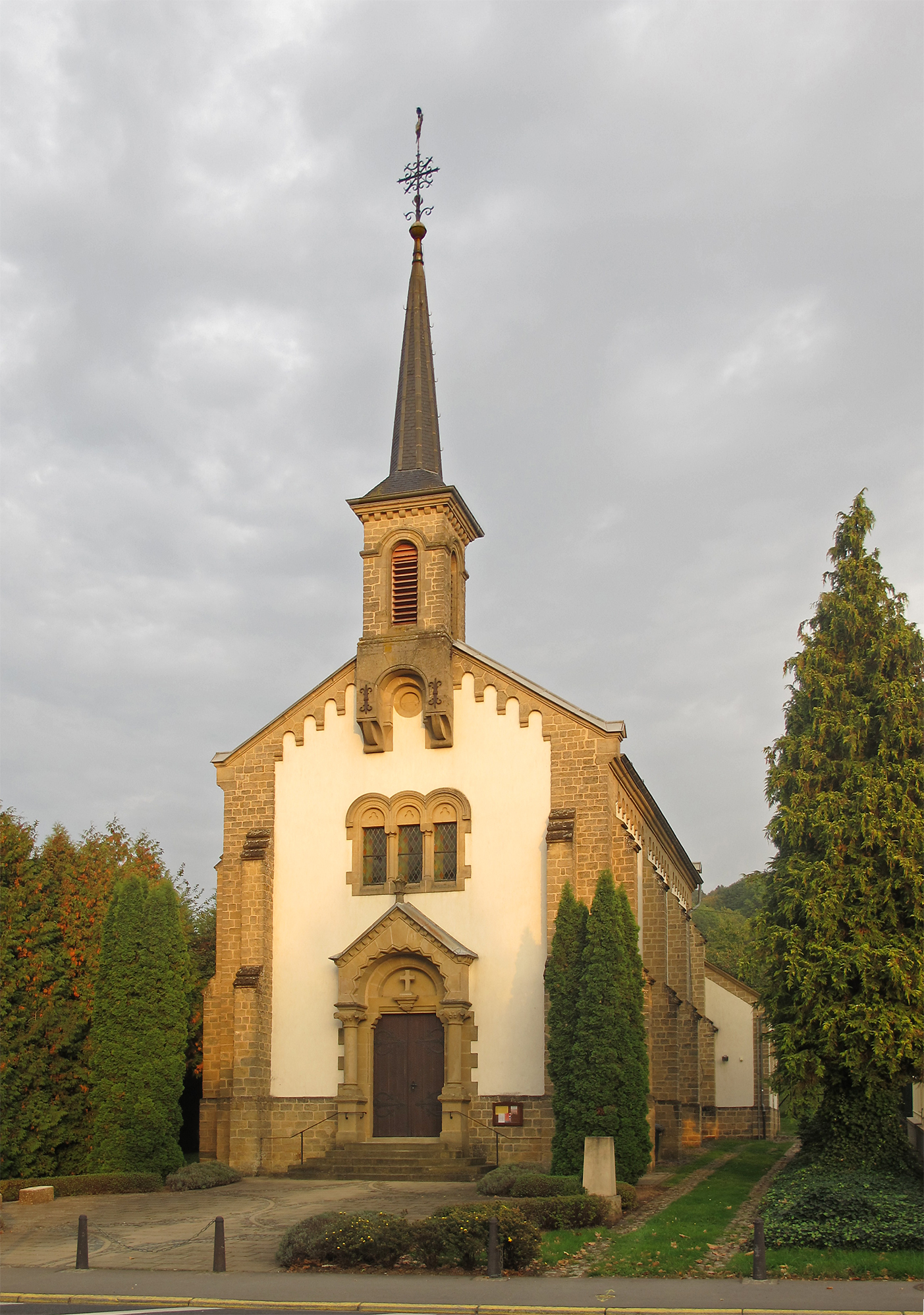 Church of Bofferdange, Luxembourg